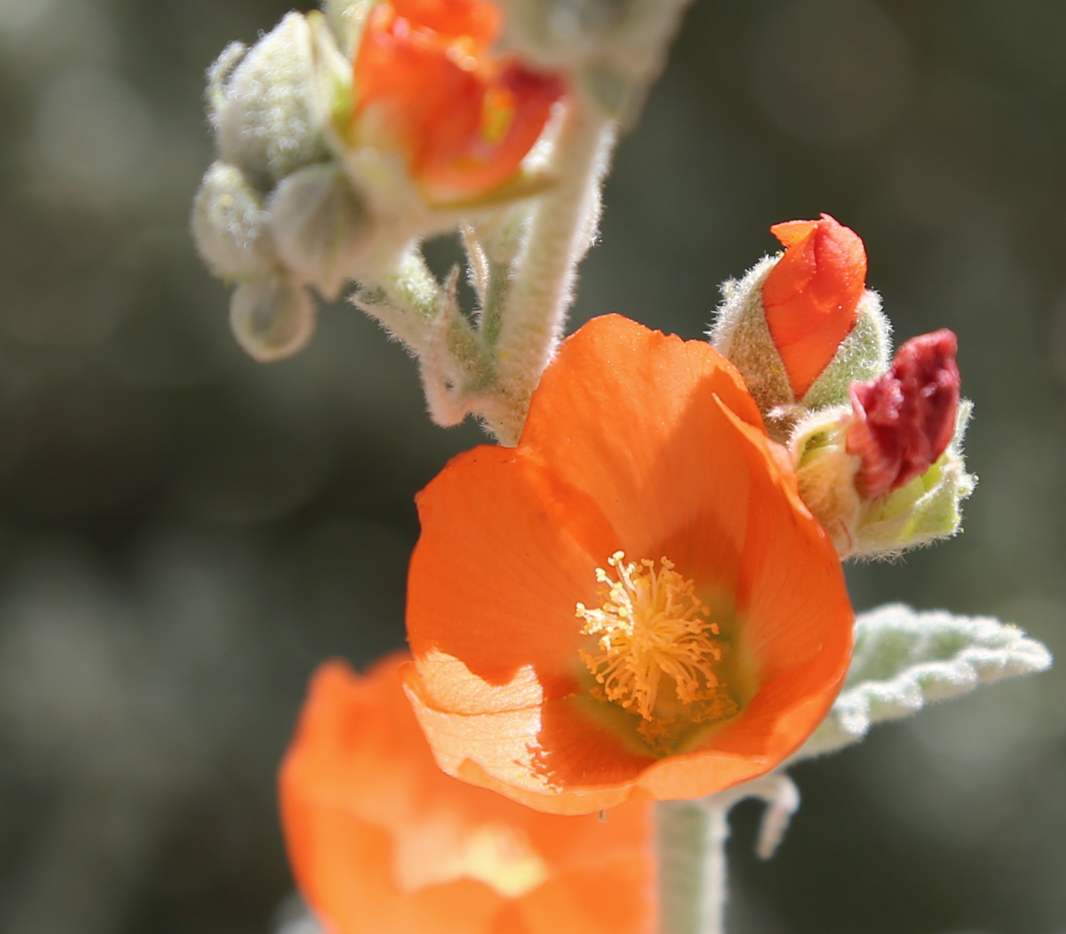 Apricot mallow (Sphaeralcea ambigua), closeup of flower. At 5,200 ft (1,600 m) in Lower Rock Creek canyon, Mono County, California.